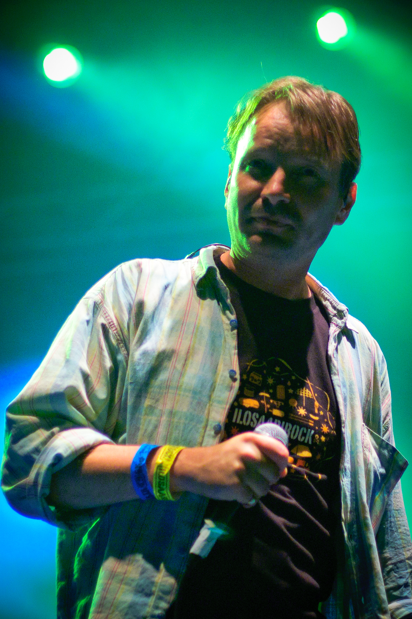 Finnish vocalist Pauli Hanhiniemi of the band Kolmas Nainen performing at the 2010 Ilosaarirock festival in Joensuu, Finland.